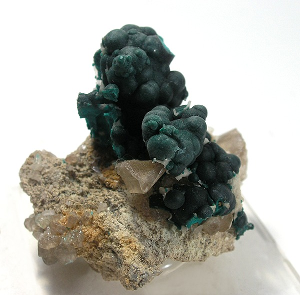 Pseudomalachite, Cerussite Locality: Broken Hill Proprietary Mine (Proprietary Mine; BHP Mine), Broken Hill, Yancowinna County, New South Wales, Australia (Locality at ) This is a really interesting and sculptural combination specimen featuring a thick arborescent cluster of pseudomalachite balls overlaying cerussite. A classy piece, that is most unusual in visual aspect! 4 x 3.8 x 2.7 cm